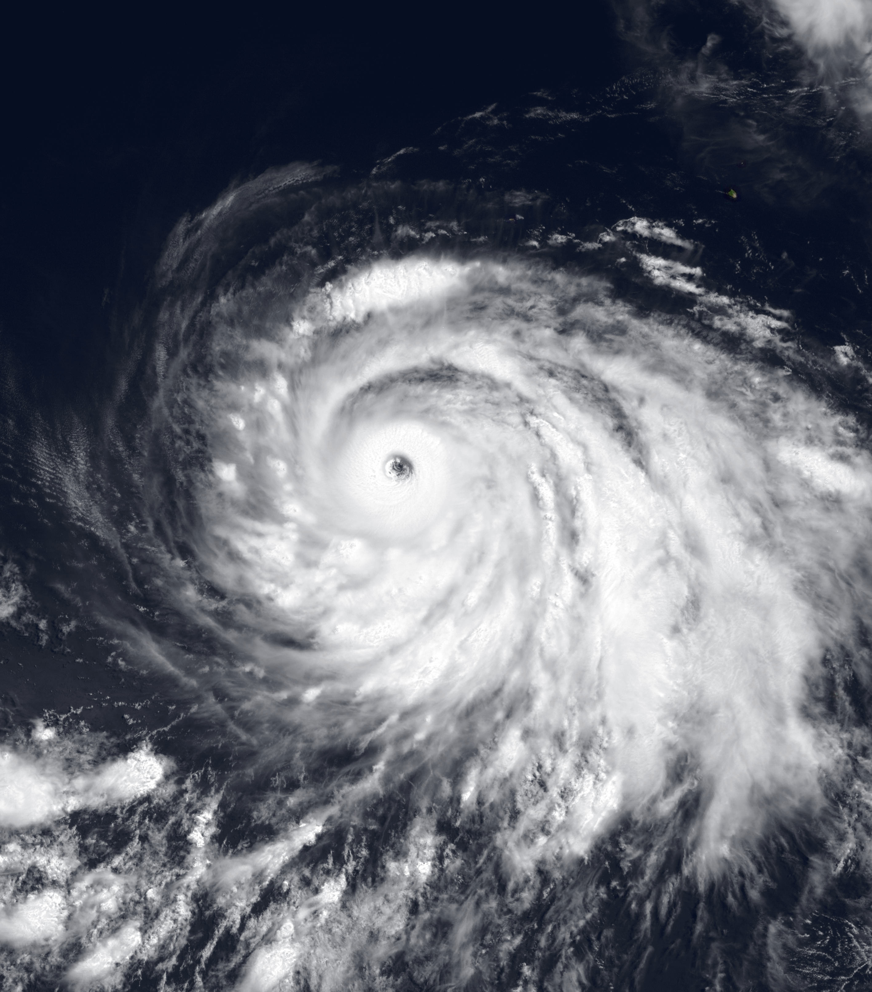 Hurricane Guillermo in the Eastern Pacific at 18:30 UTC on August 4, 1997.